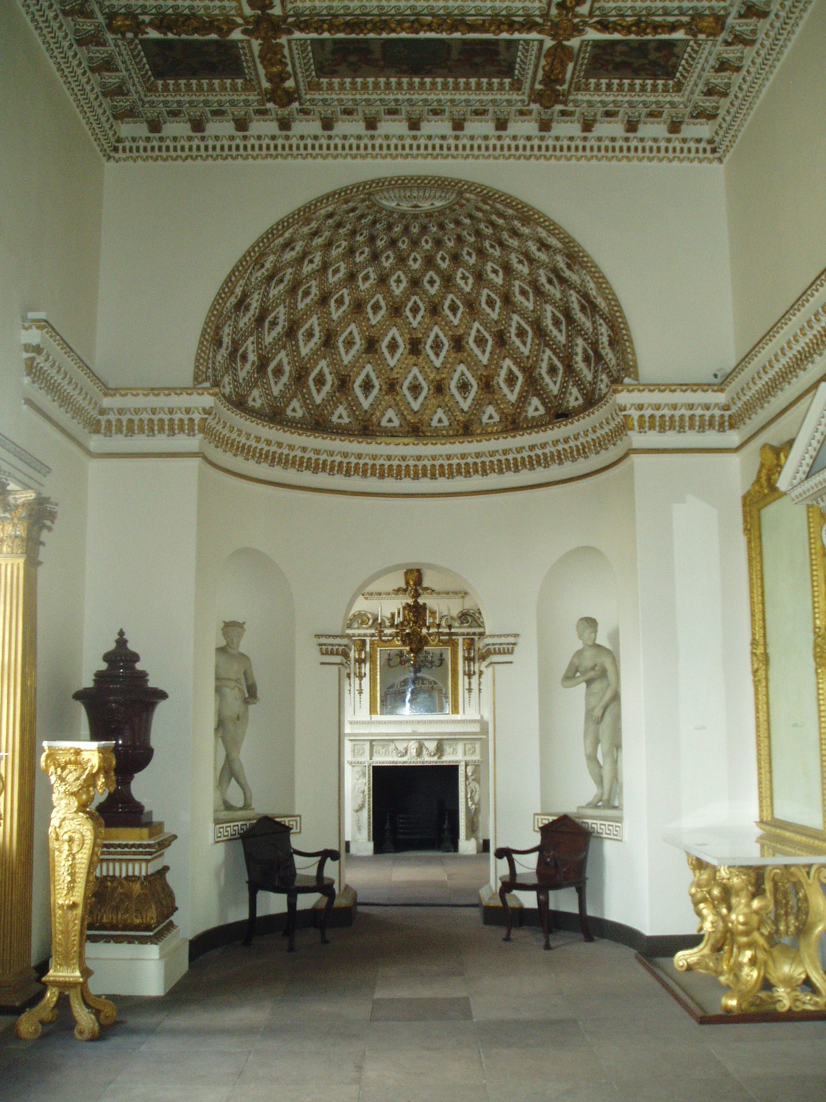 The central Gallery space at Chiswick House showing apse derived from the ancient Roman Temple of Venus and Roma (Sun and Moon)